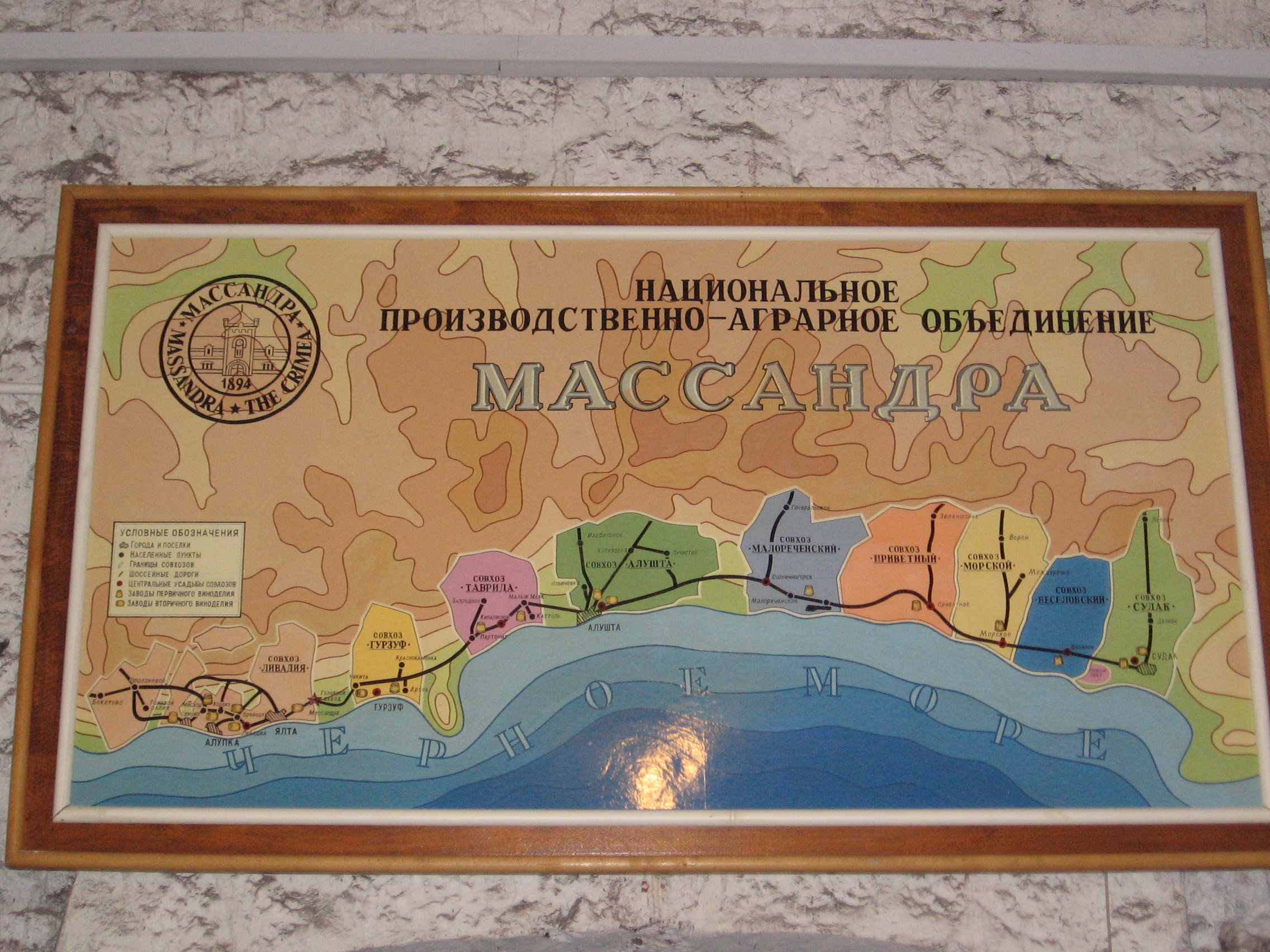 Massandra winery map, Crimea